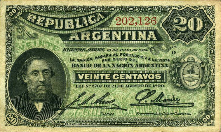 Peso Moneda Nacional of Argentina.